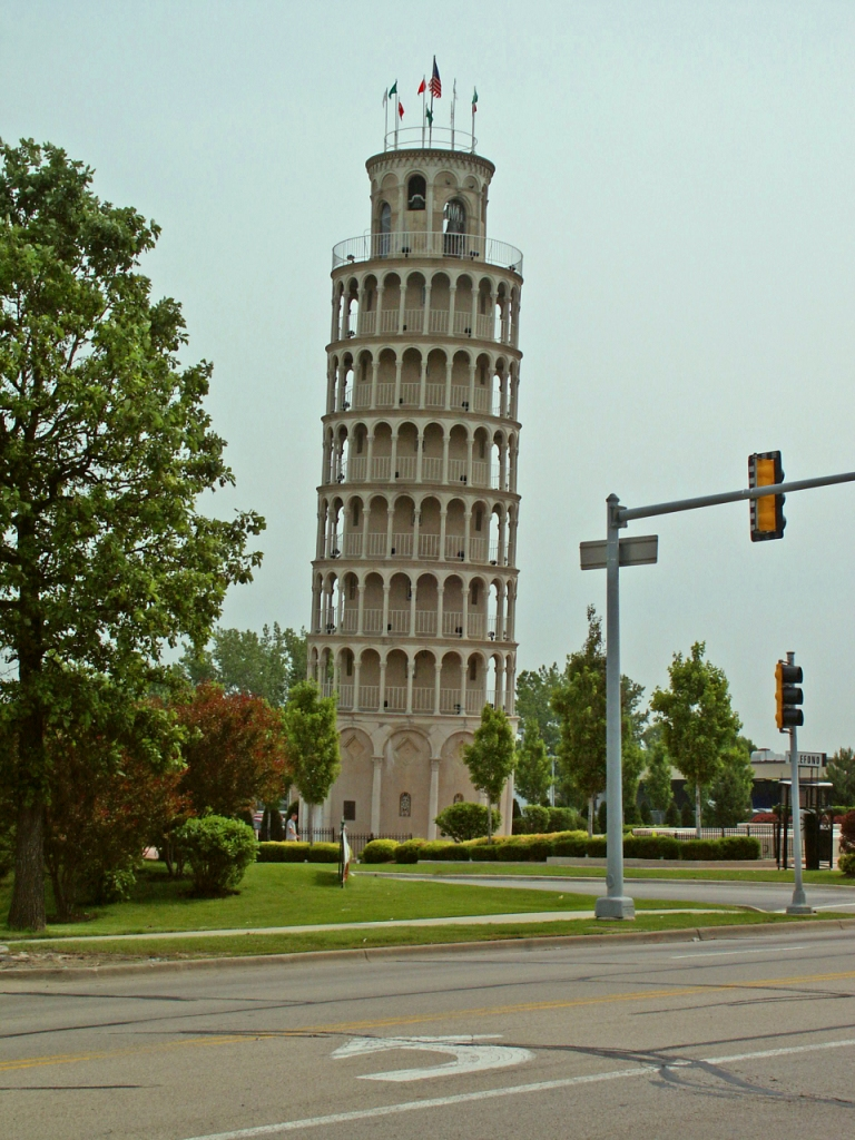 Leaning Tower of Niles, Photographer Raniero Tazzi, Photo taken on June 19, 2002.